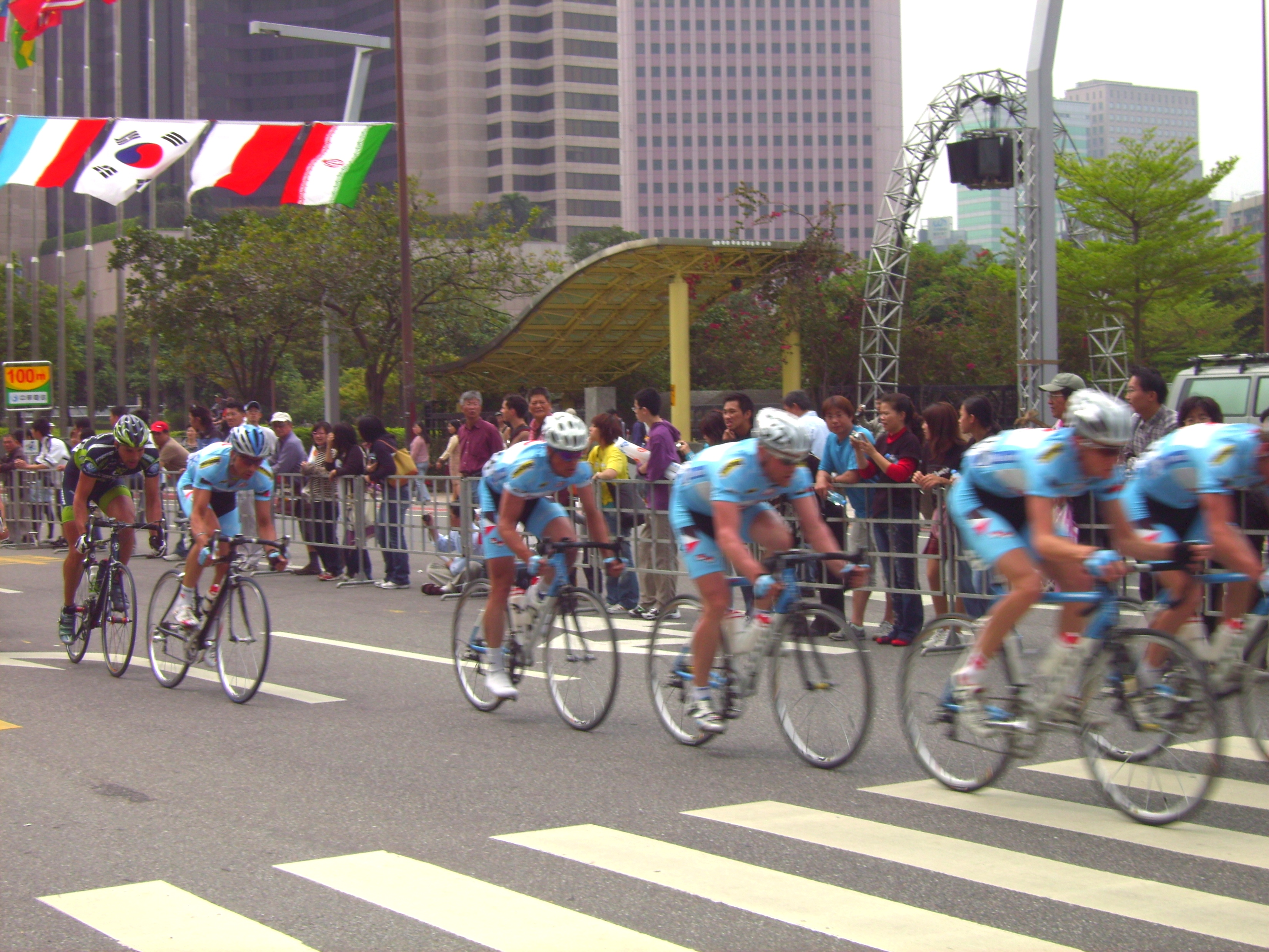 Tour de Taiwan 2007: Luxembourg Continental Cycling Team Differdange finally won the group champion.